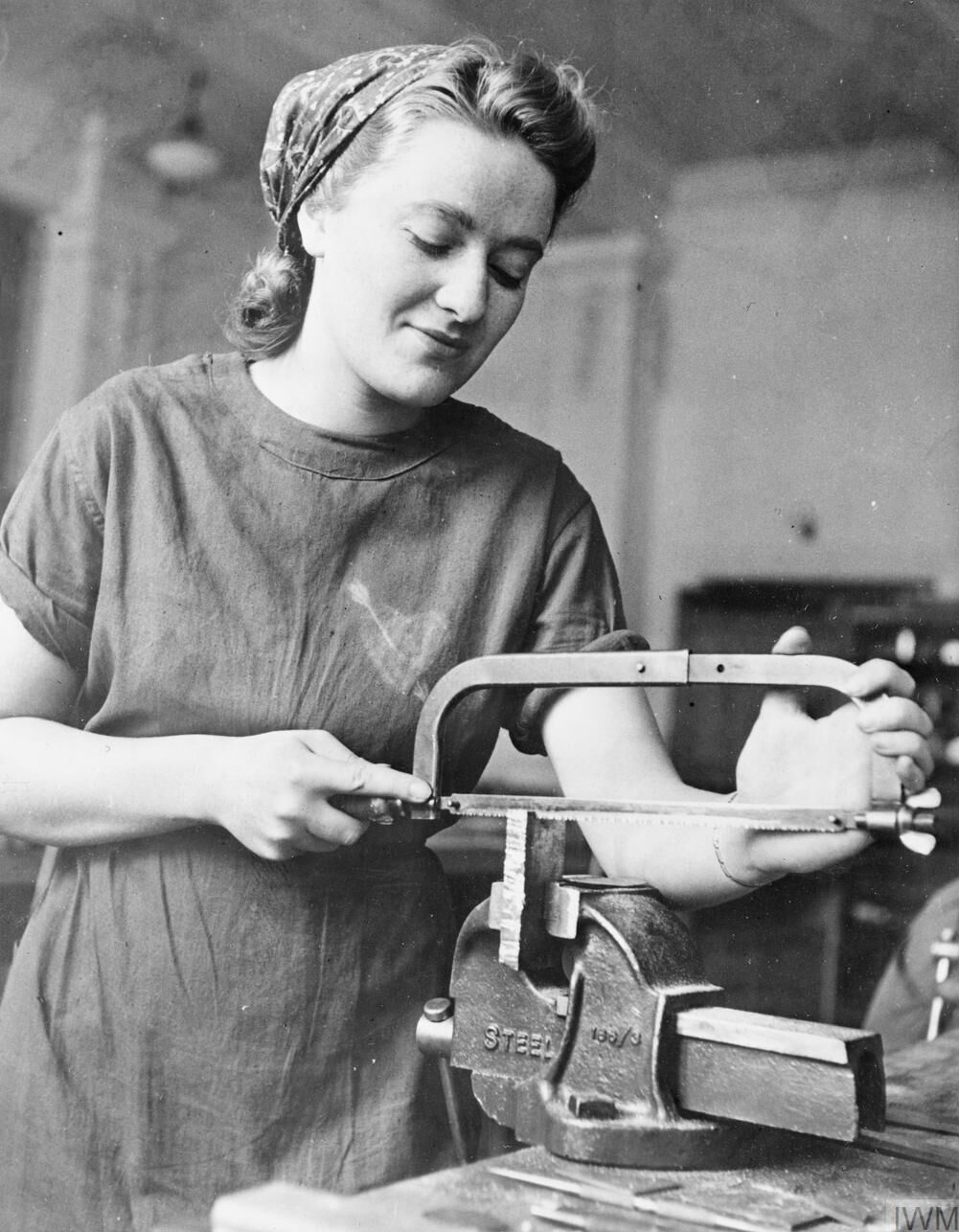 Training For War Work- Chiswick Polytechnic, Turnham Green, 1941 Miss Grace Bridges uses a hacksaw at Chiswick Polytechnic. Before the war, she was a variety and cabaret dancer and is from a family of six.